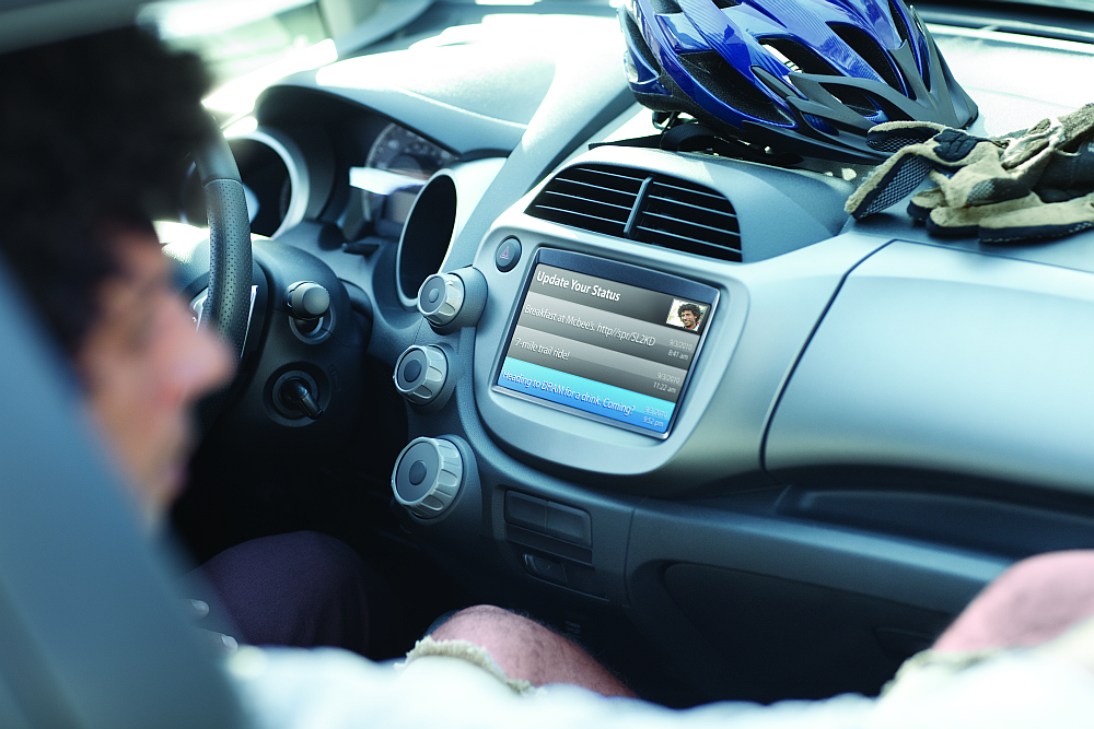 "Younger consumers don't show the same interest, the same appeal for automobiles as older generations," said Thilo Koslowski, vice president at Gartner research.